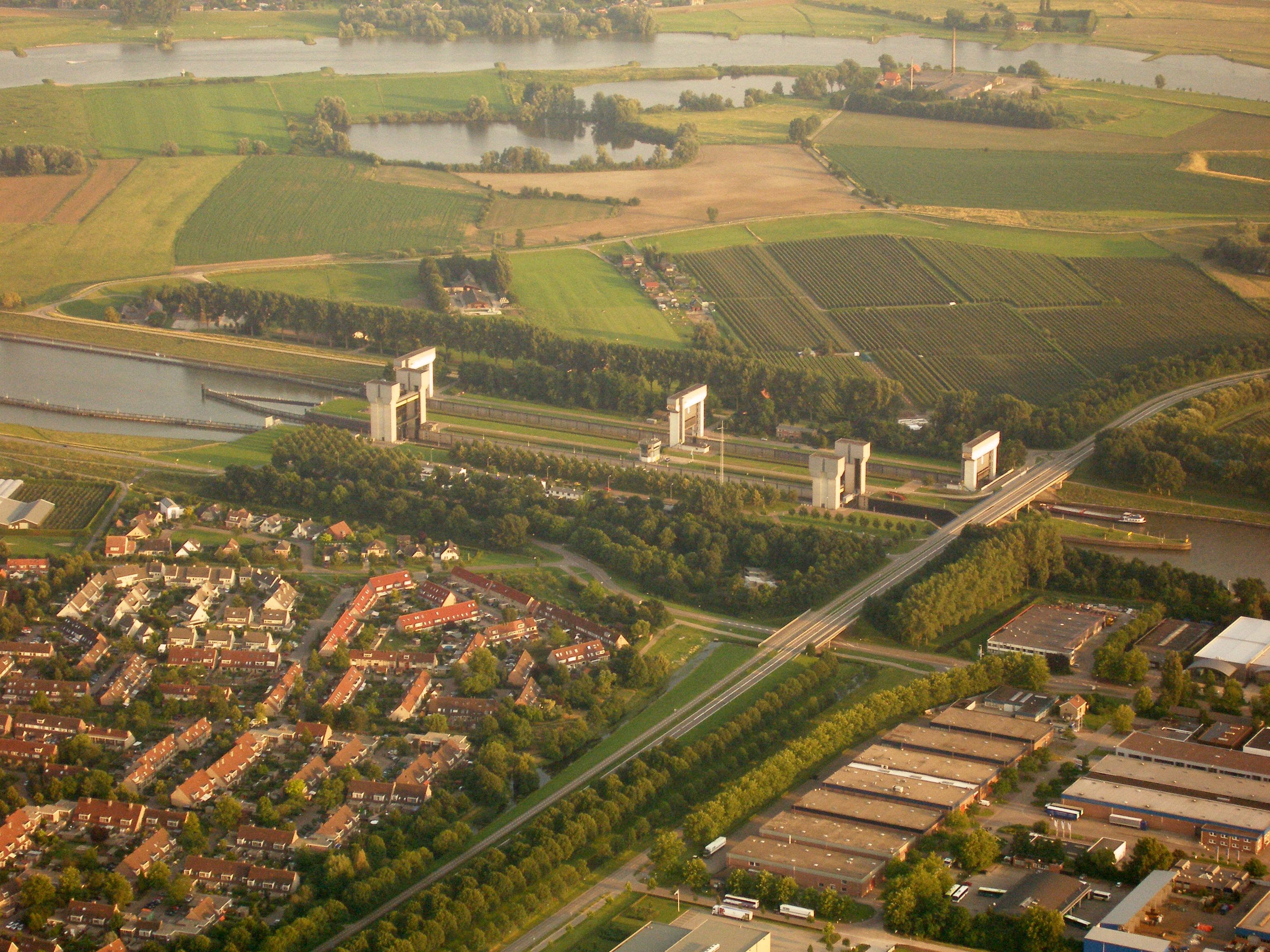 The Prinses Irenesluizen (locks) in the Amsterdam-Rhine Canal, near the city of Wijk bij Duurstede (the Netherlands).